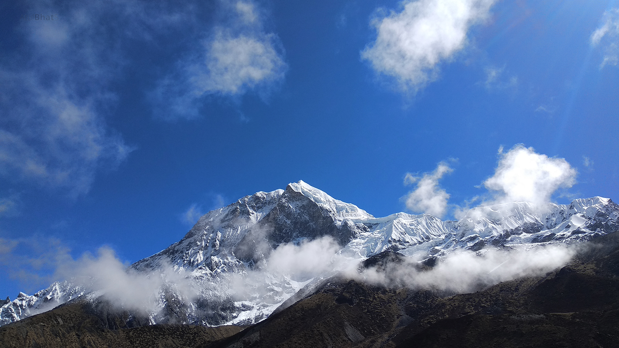 Mount Pandim towers over the skyline visible to people throught out the entire trekking trail of Goecha La. Appearing first at Dzongri, it stays in sight side by side along the trail.